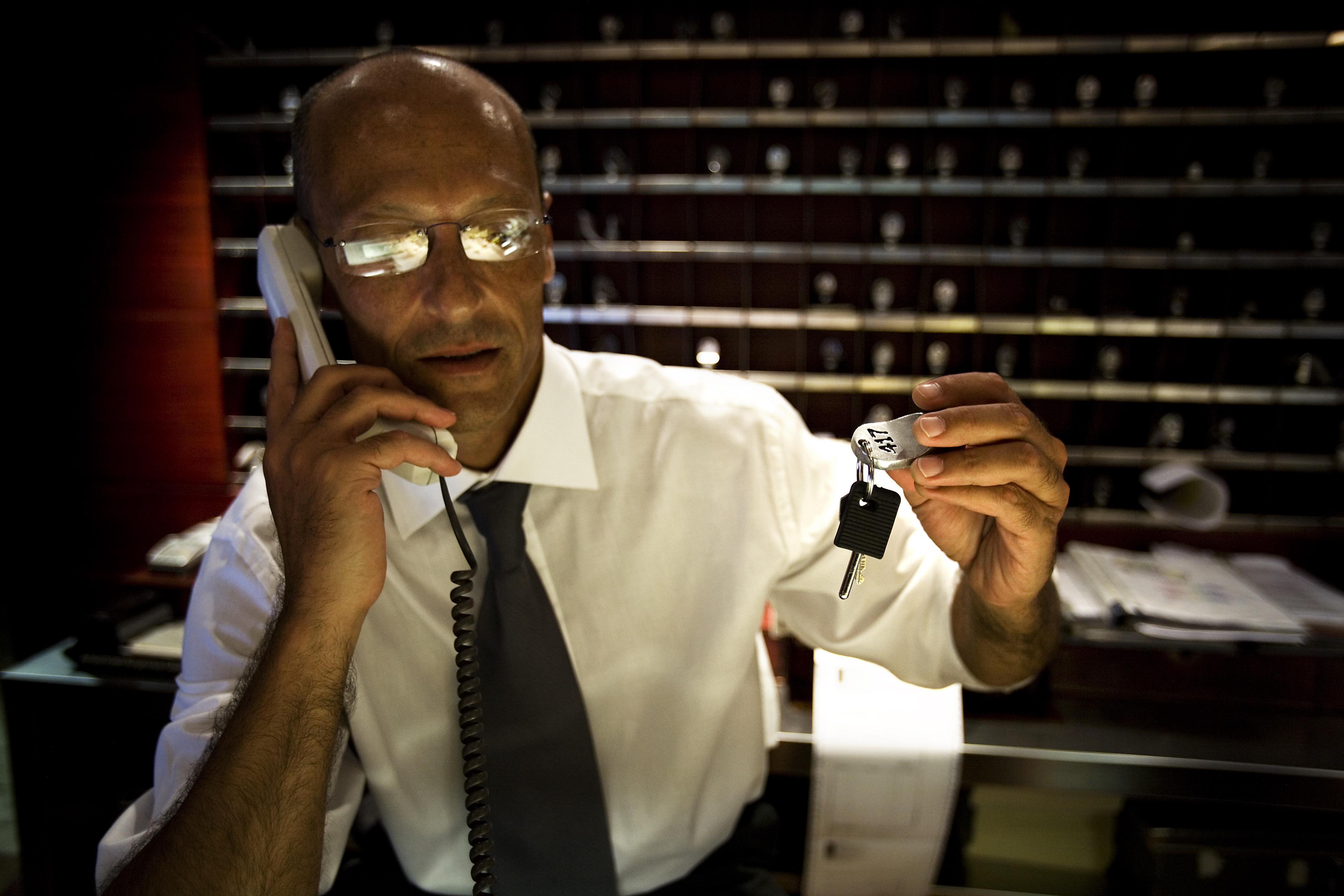 A hotel concierge handing room keys and talking on the phone. Rome, Italy